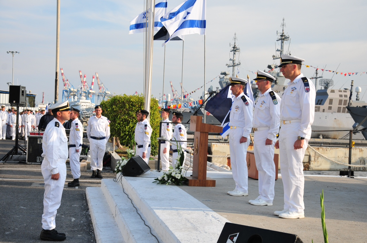 November 28, 2011 Senior Israel Navy officers salute the newly appointed commander of the Haifa Naval Base, Brigadier General Eli Shirbit. The base--the hub of Israel's naval force--includes a squadron of submarines and missile boats. Photo by Pvt. Shay Wagner, IDF Spokesperson Unit. The Israel Defense Forces Facebook page The Israel Defense Forces blog Follow us on Twitter